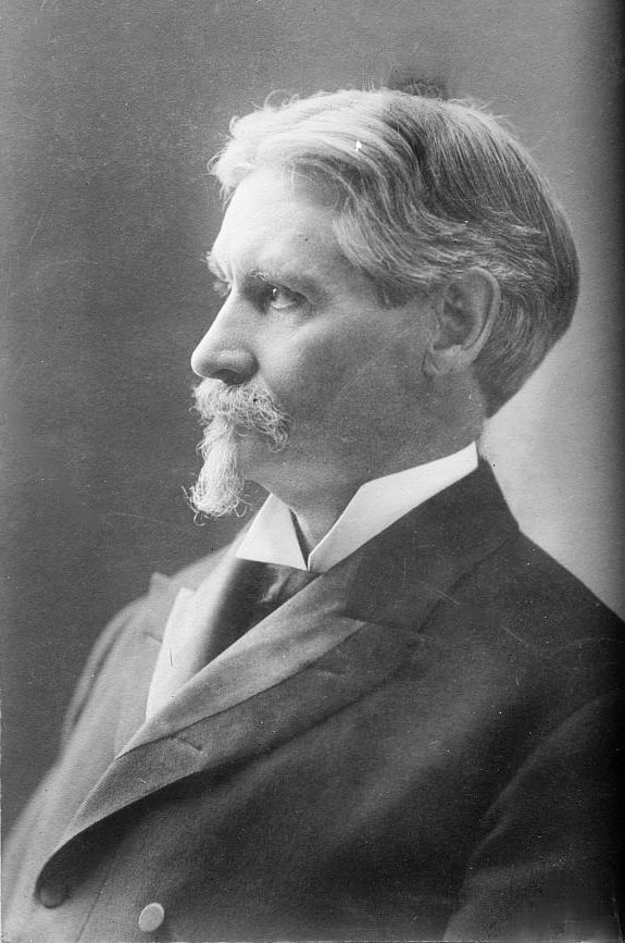 Photo shows Washington Gardner (1845-1928), a Michigan politician who was Commander in Chief of the Grand Army of the Republic from 1913-1914. Bain News Service, publisher. Washington Gardener, [between ca. 1910 and ca. 1915], 1 negative : glass ; 5 x 7 in. or smaller. Notes: Title from unverified data provided by the Bain News Service on the negatives or caption cards. Forms part of: George Grantham Bain Collection (Library of Congress). Format: Glass negatives. Repository: Library of Congress, Prints and Photographs Division, Washington, D.C. 20540 USA, General information about the Bain Collection is available at Persistent URL: Call Number: LC-B2- 2842-11